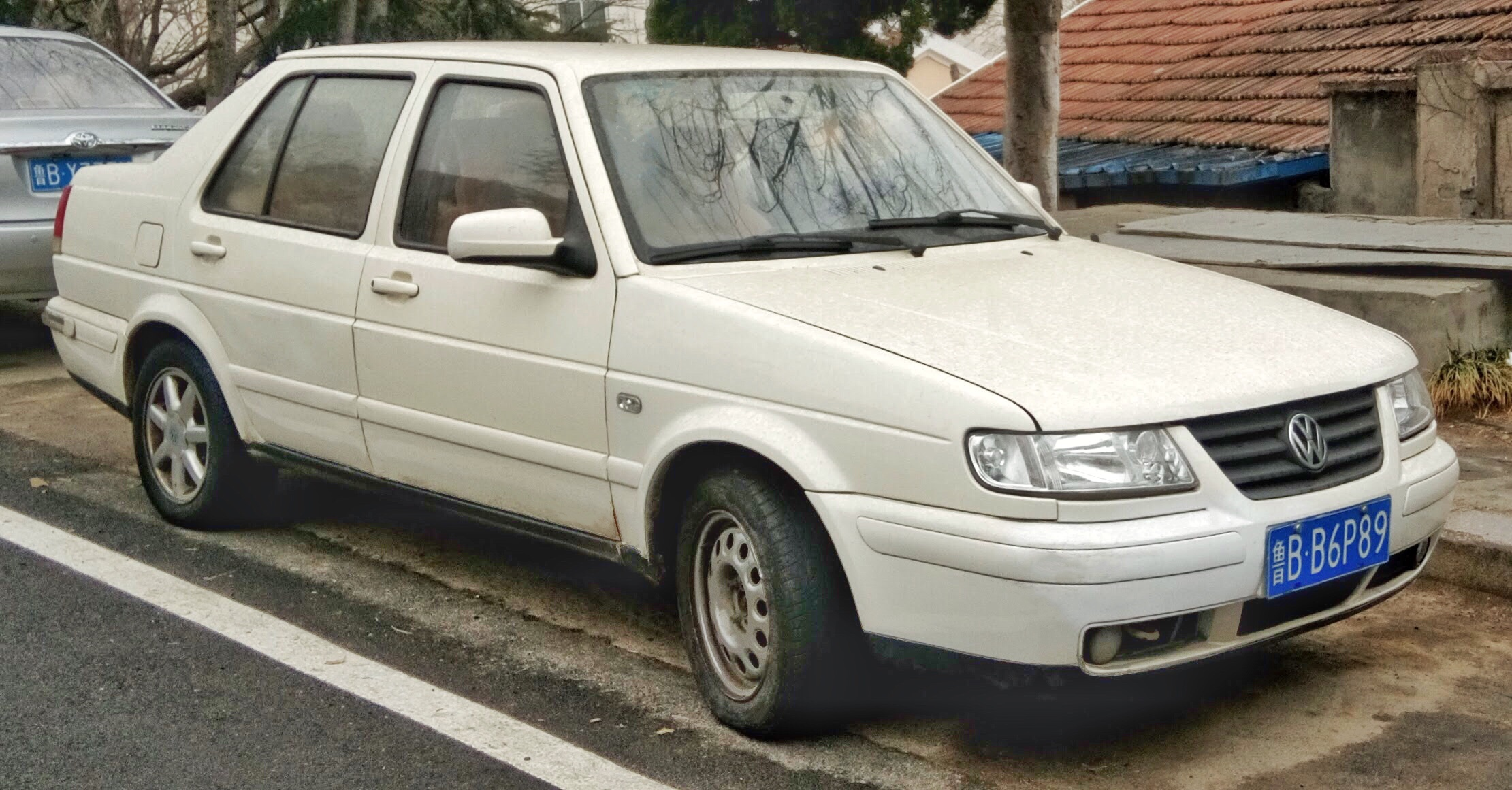 A white Volkswagen Jetta in Qingdao,China